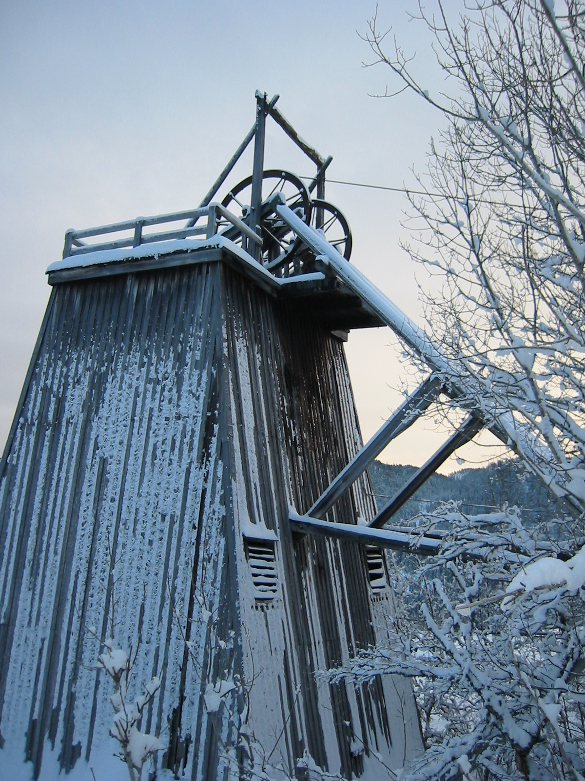 Old Mine Tower in Løkken Verk